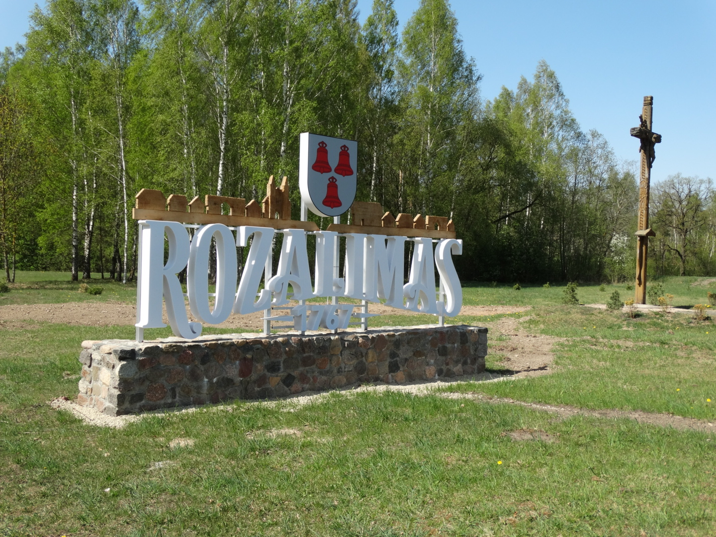 Rozalimas, Lithuania